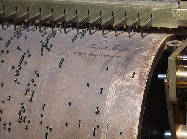 This is an edited version (derivative work) of a file already on Wikimedia Commons - File:Vienna_-_Detail_of_an_automatic_piano_roll_-_0111.jpg